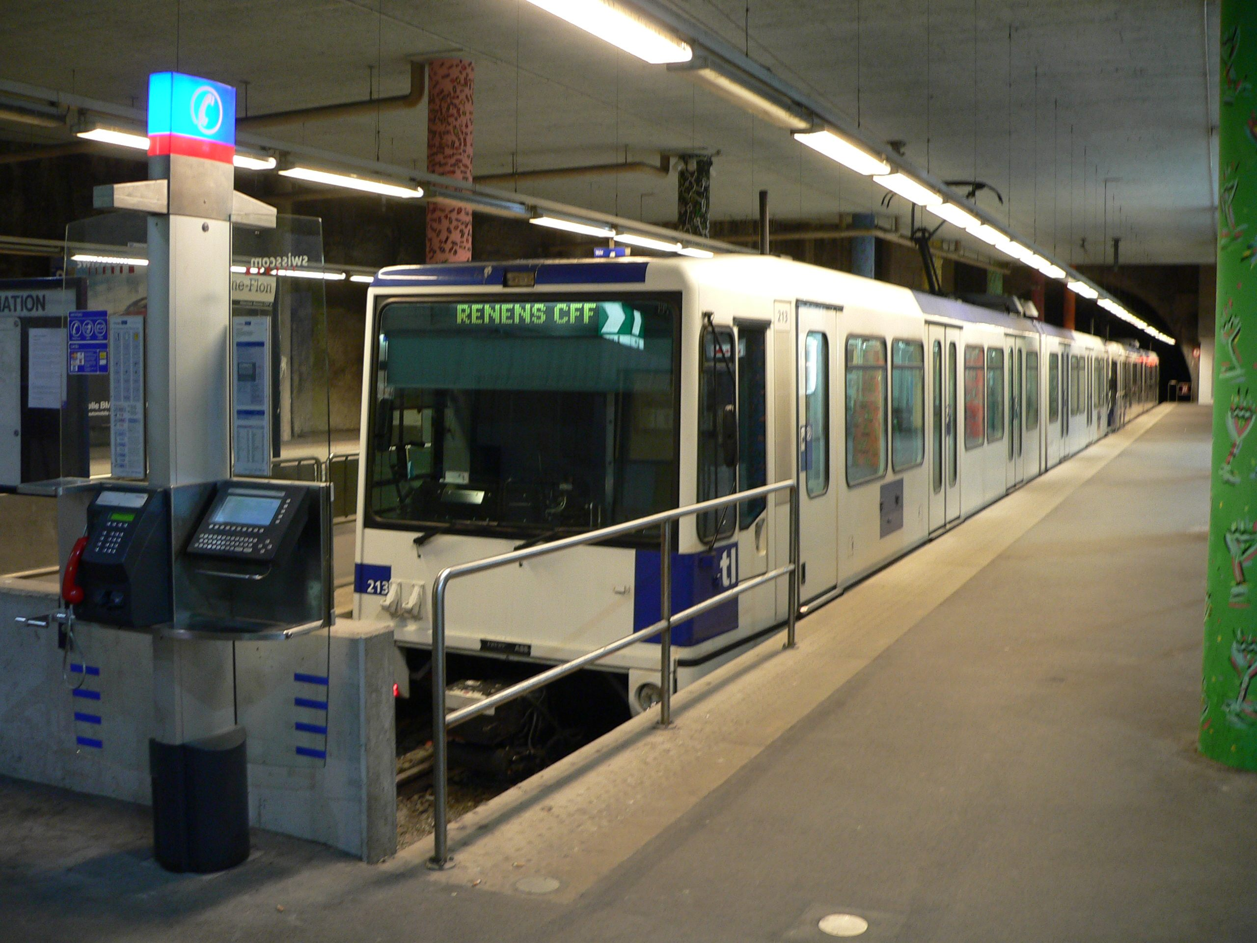 Flon metro station in Lausanne (m1 line, aka TSOL